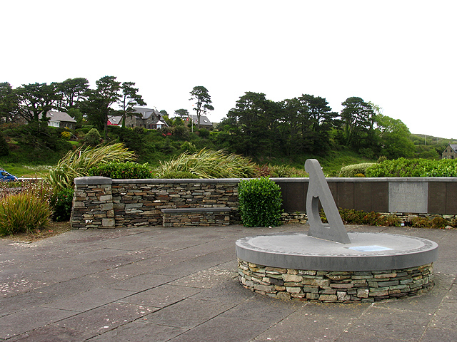 Ahakista Memorial of the Air India Crash. This memorial is situated at the south end of the land in this square. This picture was taken looking more or less north.